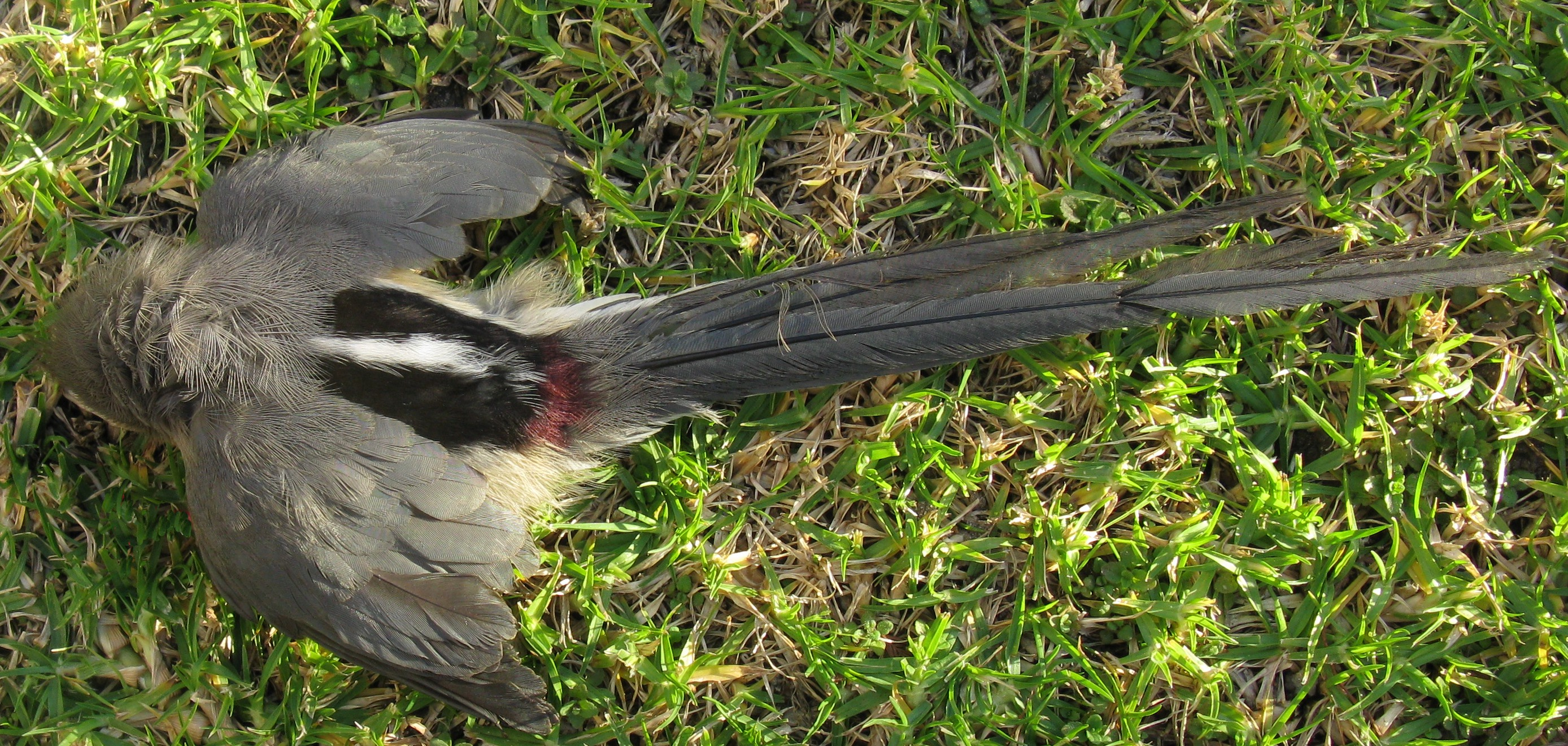 Showing the back of a dead specimen